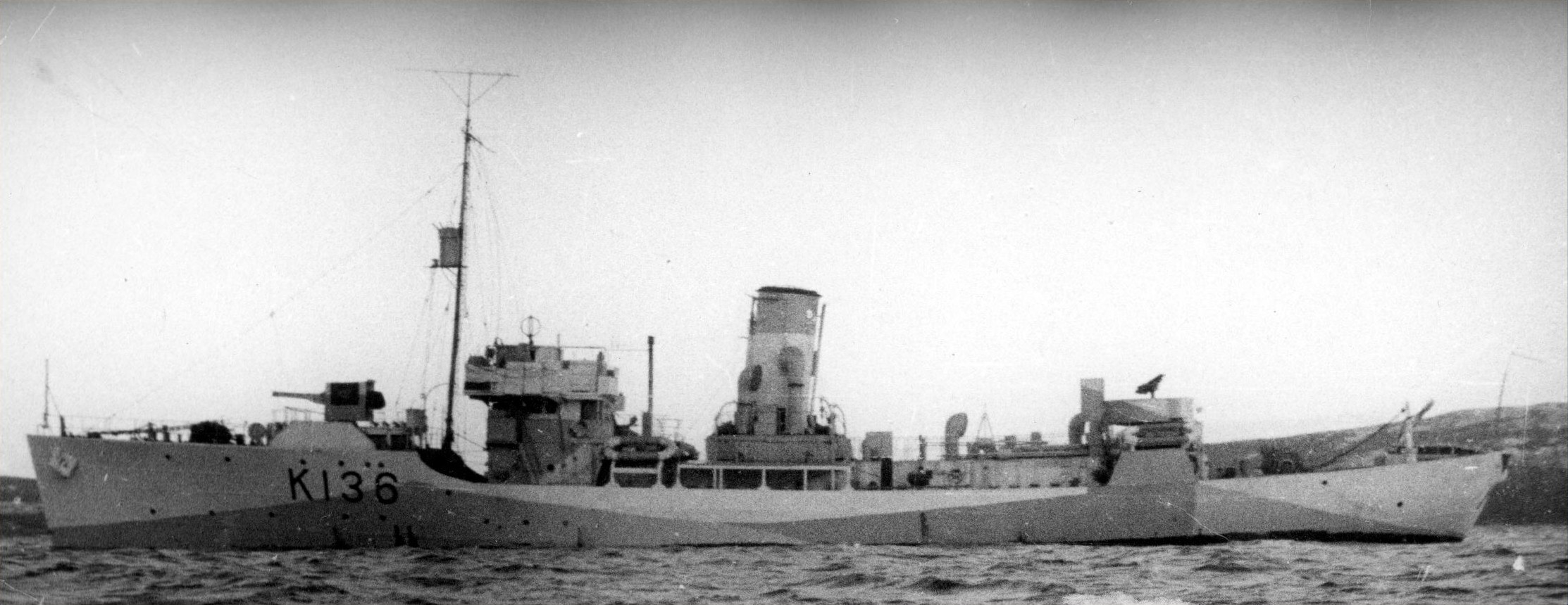 HMCS Shawinigan, corvette of the Canadian Navy, served from 1941 to 1944